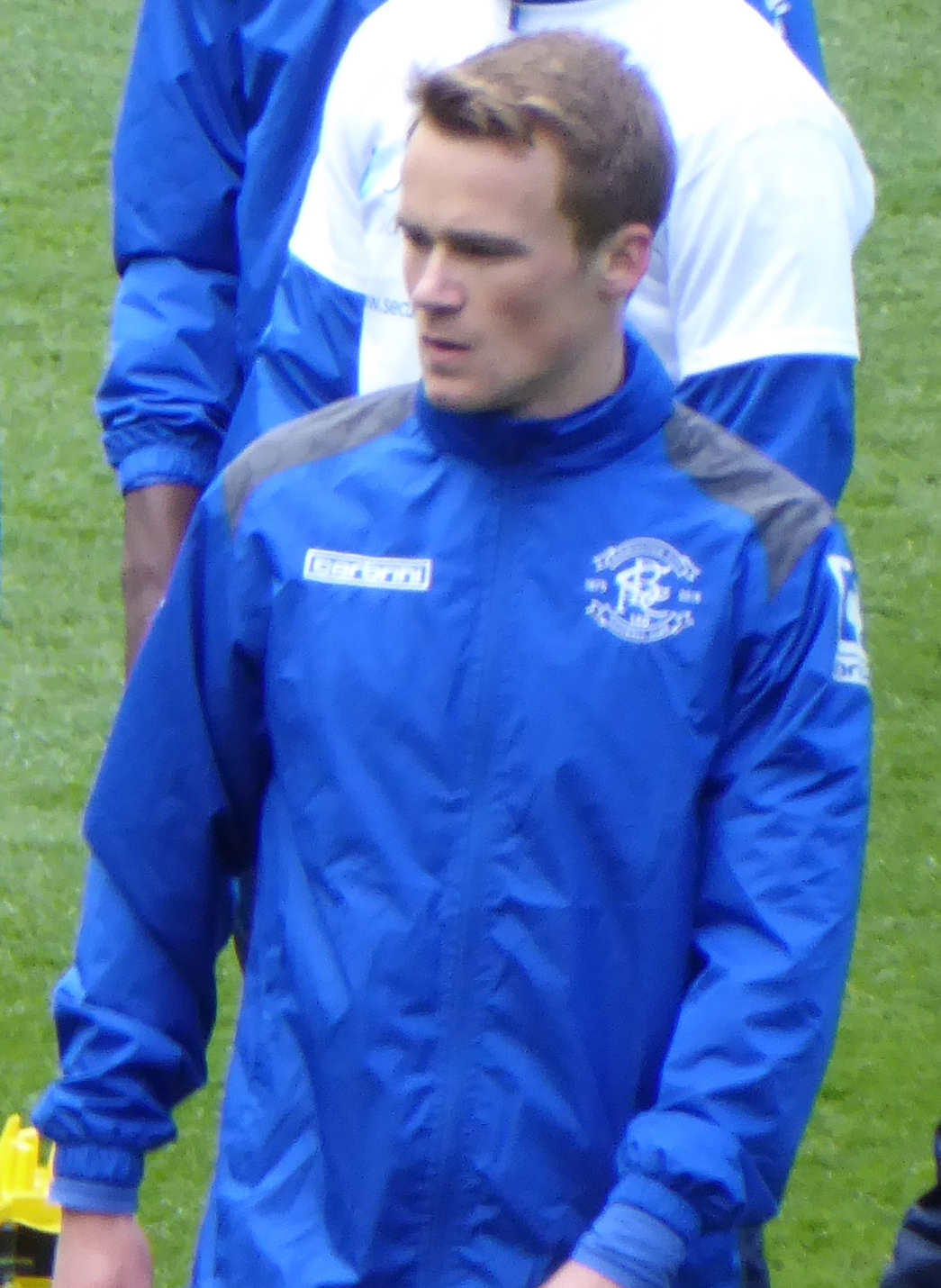 Maikel Kieftenbeld of Birmingham City Football Club warming up before a match in April 2016